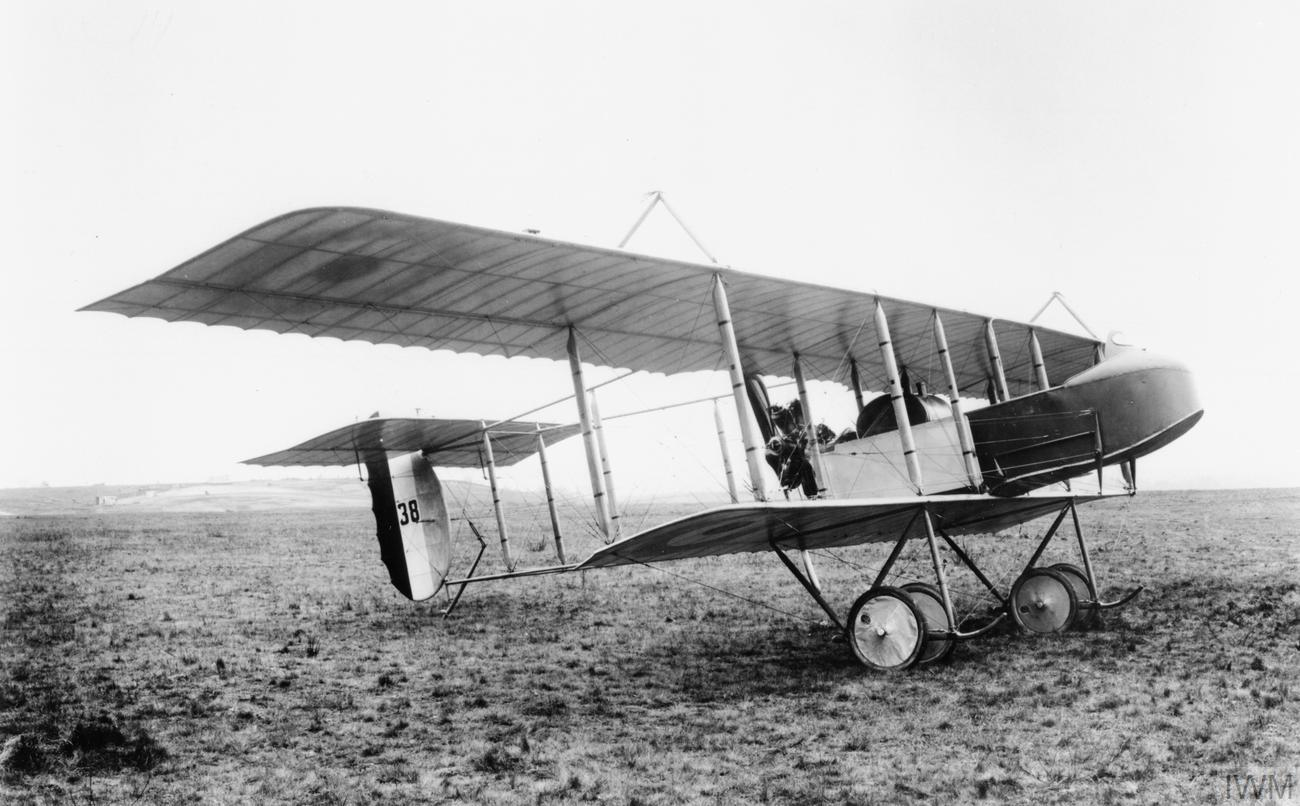 Aviation in Britain Before the First World War A Henri Farman pusher biplane with a 80 horse power Gnome rotary engine on the ground.